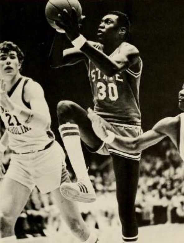 NC State basketball player Phil Spence from the 1974 “Agromeck” yearbook.